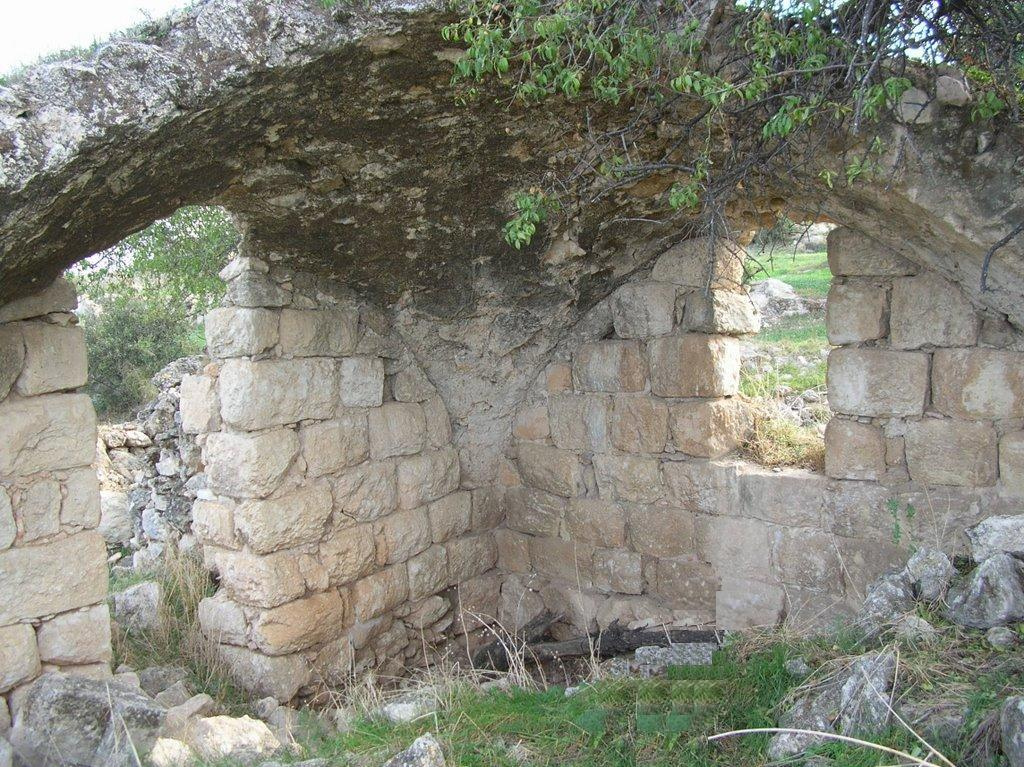 ruin of Al-Kunayyisa, formerly Palestinian village depopulated during 1948 Arab-Israeli War